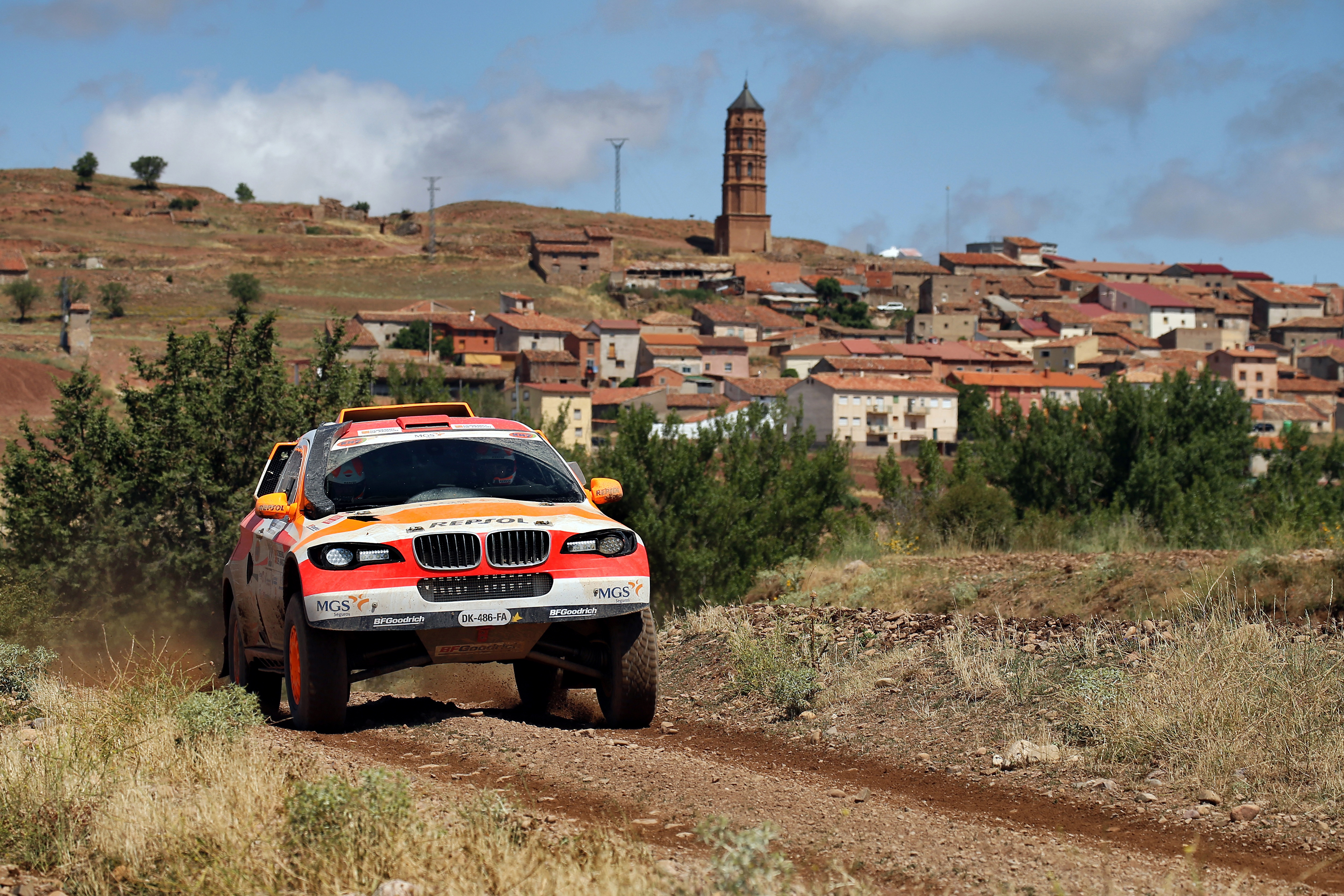 Isidre Esteve Baja Spain Aragon 2018